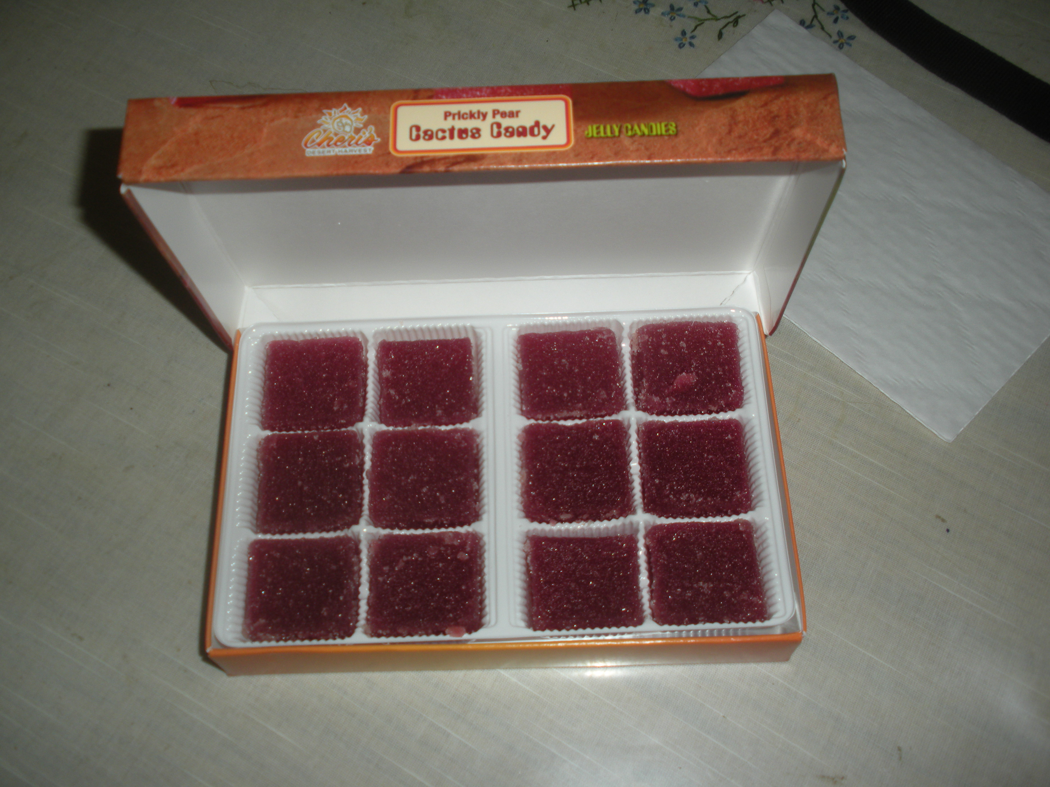 This is an opened box of Cheri's prickly pear candies. These are commonly found in Southwest U.S. gift shops. Originally posted to my Flickr